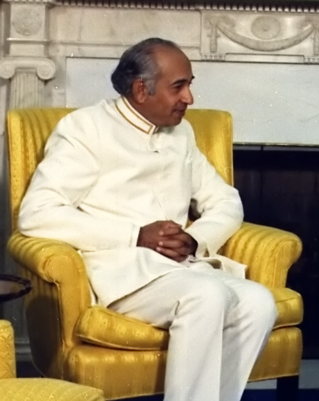 Pakistan's President Zulfikar Ali Bhutto during a visit to the White House in 1973